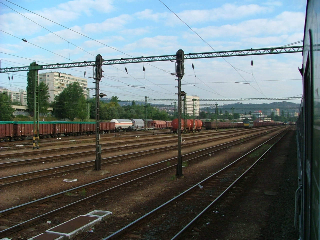 Kelenföld railway station, rail cargo yard